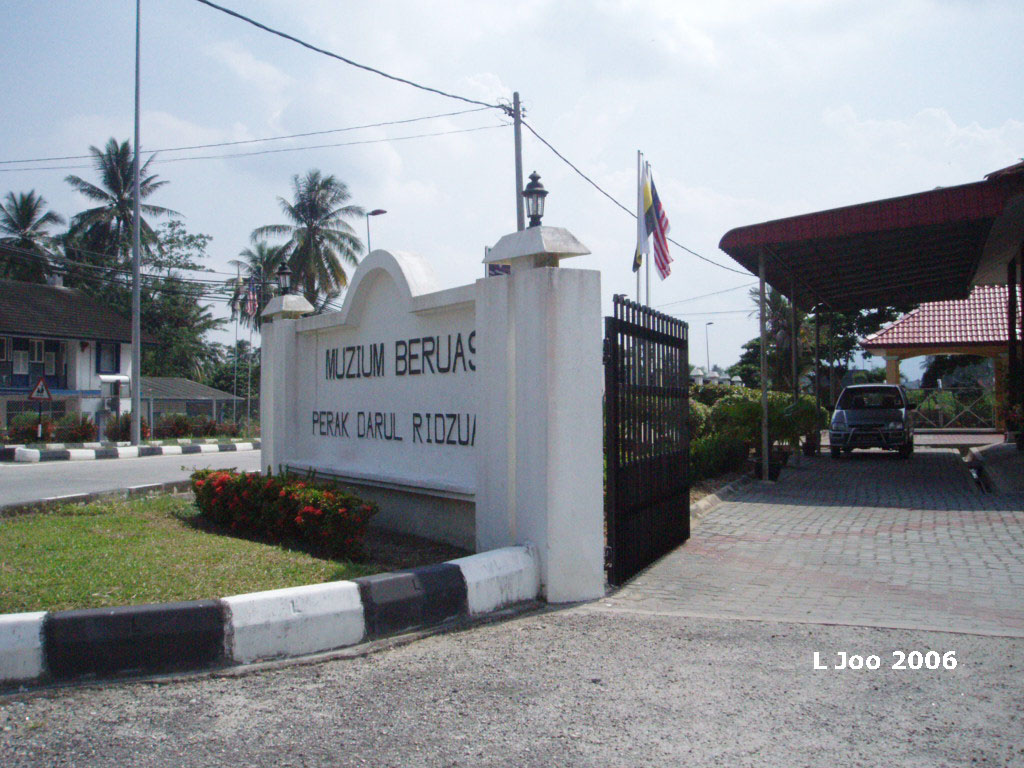 Beruas MuseumBahasa Melayu: Muzium Beruas